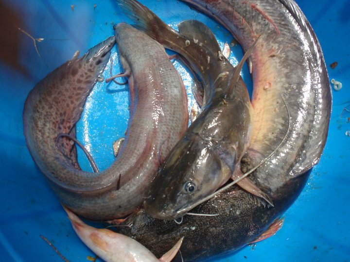 Cat-fishs from Kibos river (Winam Gulf - Kenya)